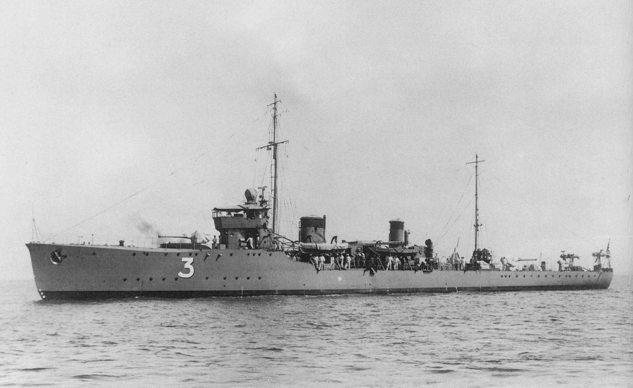 Japanese No.3 Minesweeper, completed June 30, 1923.